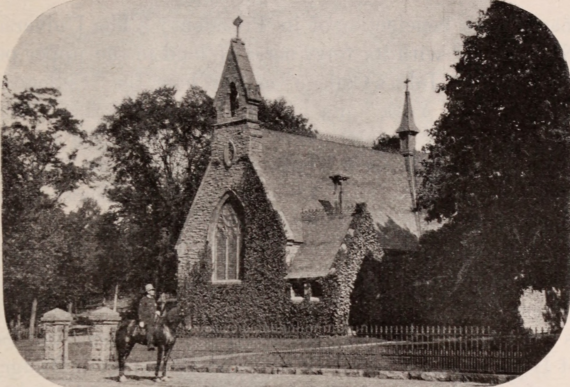 Title: The Great north side, or, Borough of the Bronx, New York Year: 1897 (1890s) Authors: Durst, Seymour B., 1913-, former owner. NNC North Side Board of Trade (Bronx, New York, N.Y.) Subjects: Publisher: New York : Knickerbocker Press Text Appearing Before Image: the amelioration of suffering man or woman.The many institutions for the care of the blind, the insane, theorphaned, the friendless, and the crippled, all supported byprivate beneficence, are monuments to the Christian liberalityof the citizens of our city. Our churches deserve especial mention. Few cities in theworld can boast of finei church edifices. Some are beautifulexamples of architecture—such for instance as Trinity,Grace, St. Bartholomews, and St. Patricks Cathedral. AVhen the Cathedral of St. John, now being erected, isfinished, we shall equal most of the cities of the world and besurpassed by none in this respect. Our public schools are most excellent and furnish accom-modation for some 125,000 children. Every year our schoolfacilities are increased, and our old school-houses made morein accord with the demands of the day, so that every childwithin our city has, free of cost, the advantage of a first-classeducation. Columbia College whose future is now doubly sure by the Text Appearing After Image: CHRIST CHURCH. RIVERDALE AND ALAMO AVES.